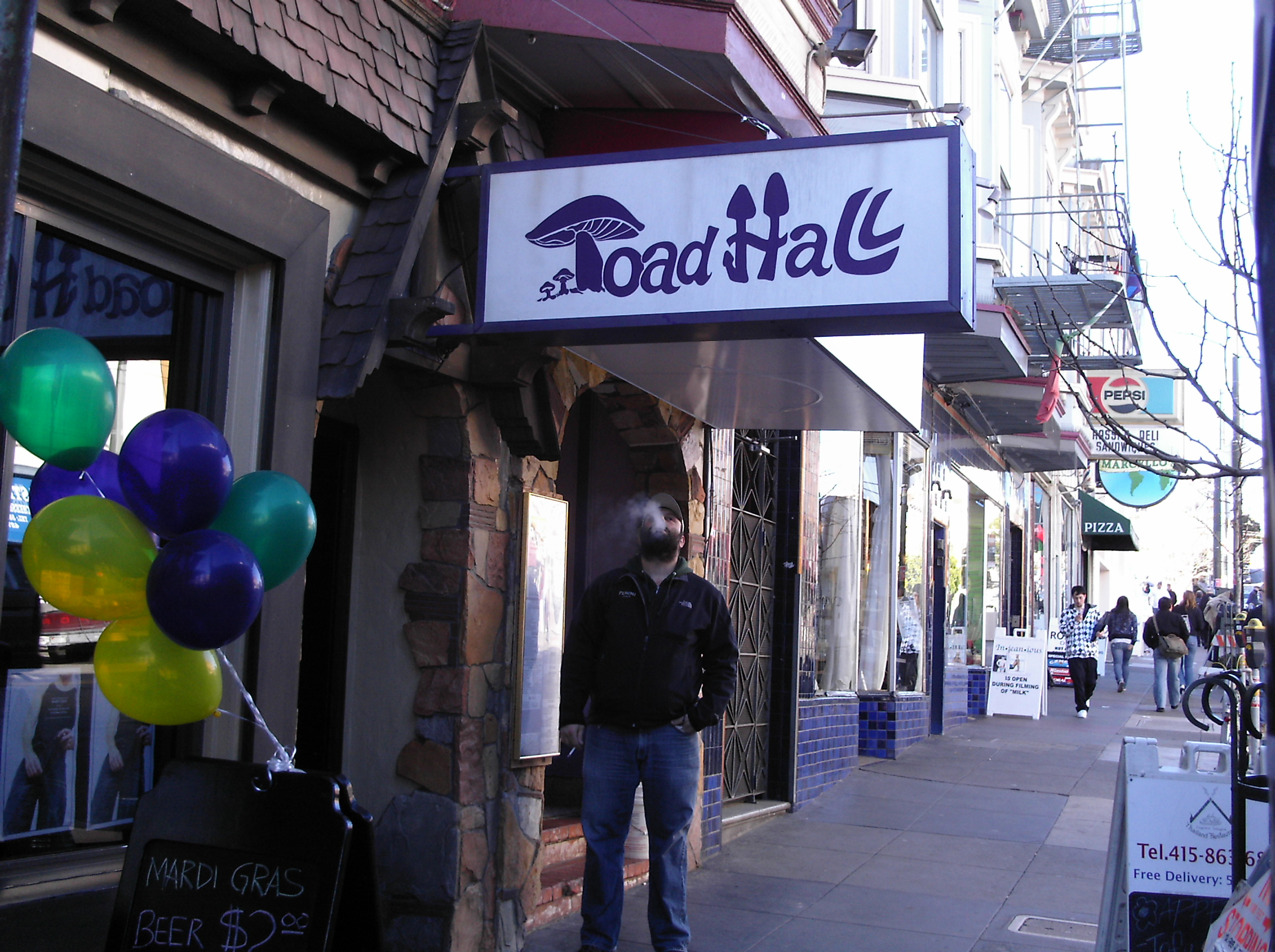 Flickr description You may use this photo as long as you credit "Strange de Jim